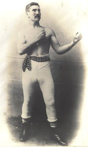 Bill Farnan - Australian champion boxer. From the collection of Arnold Thomas.